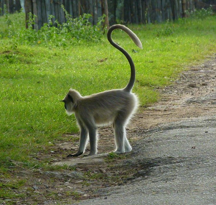 Semnopithecus priam from Bandipur National Park showing characteristic tail carriage